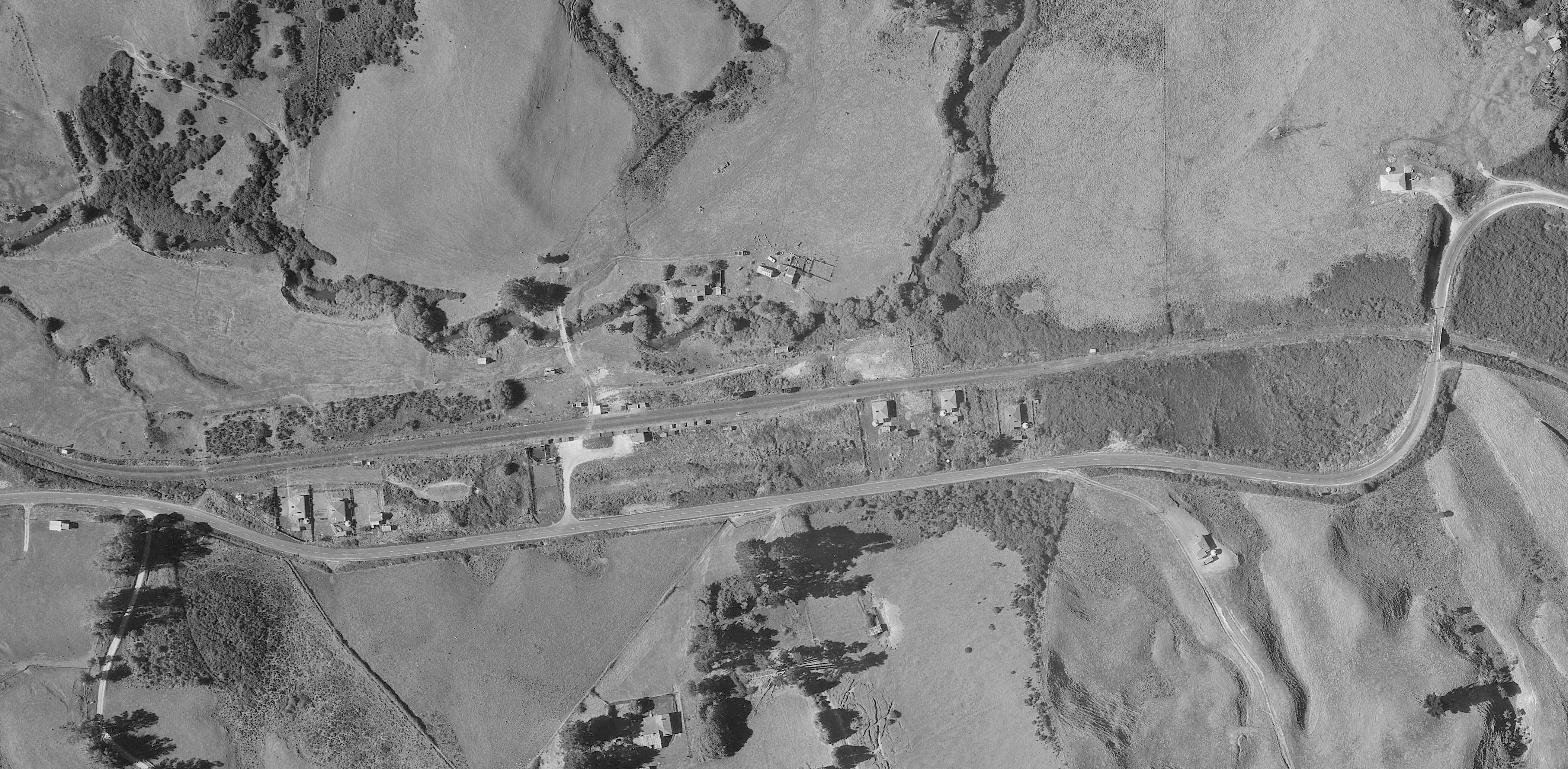 Puketutu Retrolens aerial photo 25-03-1968 SN3062